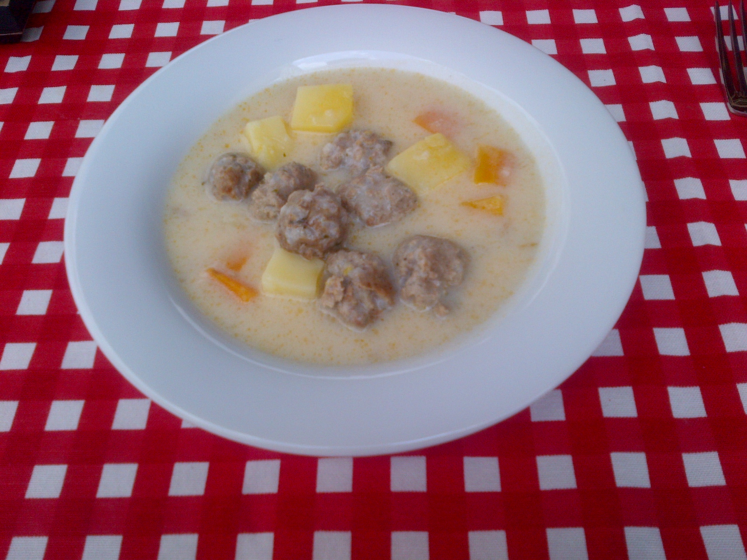 "Ekşili köfte" is a sour soup from the Turkish cuisine. It can be considered a version of "sulu köfte" with "terbiye" (egg yolk and lemon sauce).